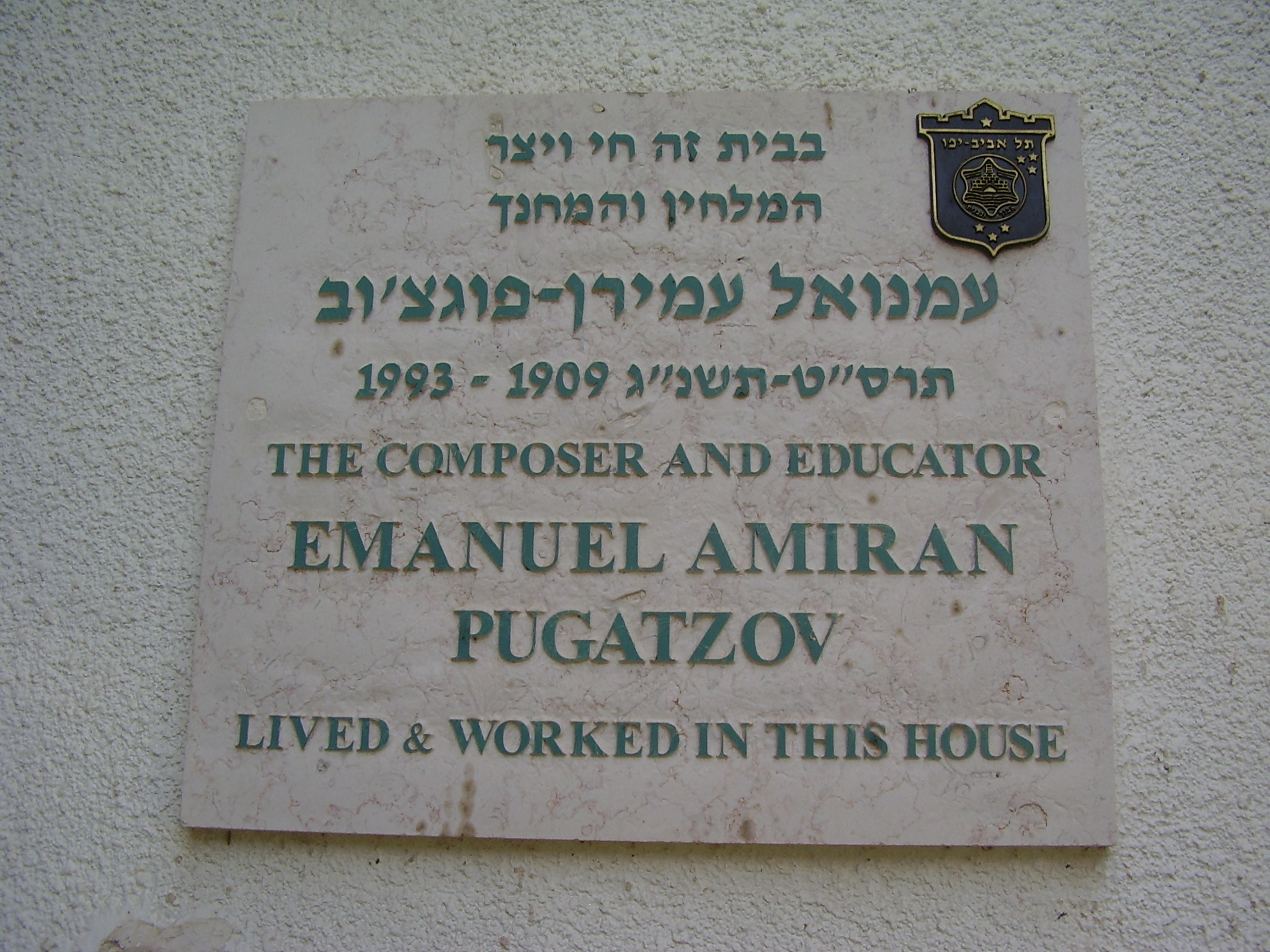 memorial plaque to the composer emanuel amiran in tel aviv לוחית זיכרון על ביתו של המלחין עמנואל עמירן ברח' הרב פרידמן 33 בתל אביב